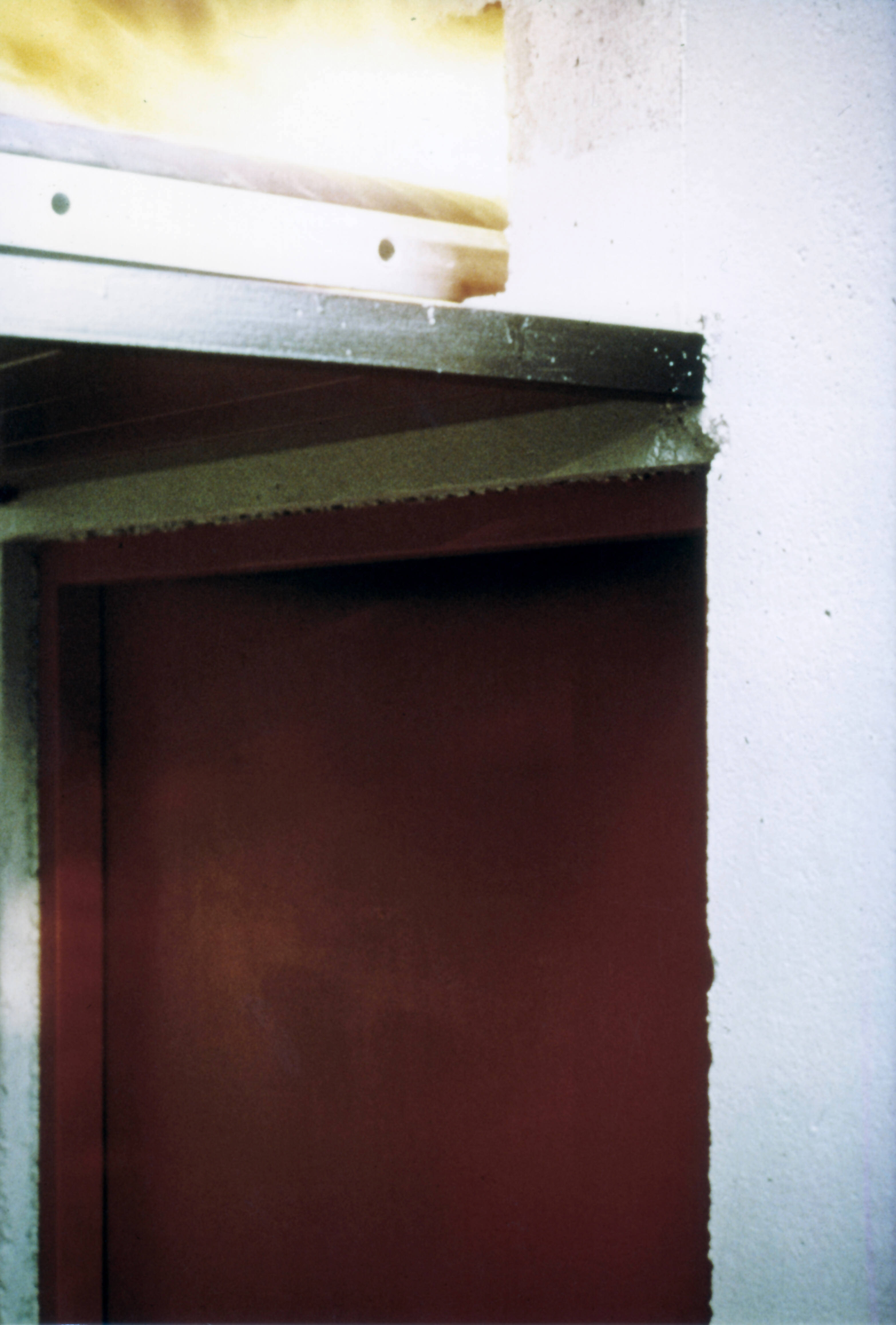 This picture was staged but it symbolises the fact that firestops are dealt with as afterthoughts in many countries. In this example, we have gone to the trouble of getting a cast concrete wall, a fire door, all duly rated, but the cable tray penetration above has no firestop, or it could be an inoperable firestop. No building code or fire code in recorded history ever permitted Swiss cheese fire barriers. Why? Because all fire barriers have testing back-up and if you have holes in there, they fail the fire test. Still, many buildings have no firestops or illegal ones with no certification listings that match the installed configuration. Why? False economies. Why? Culture.